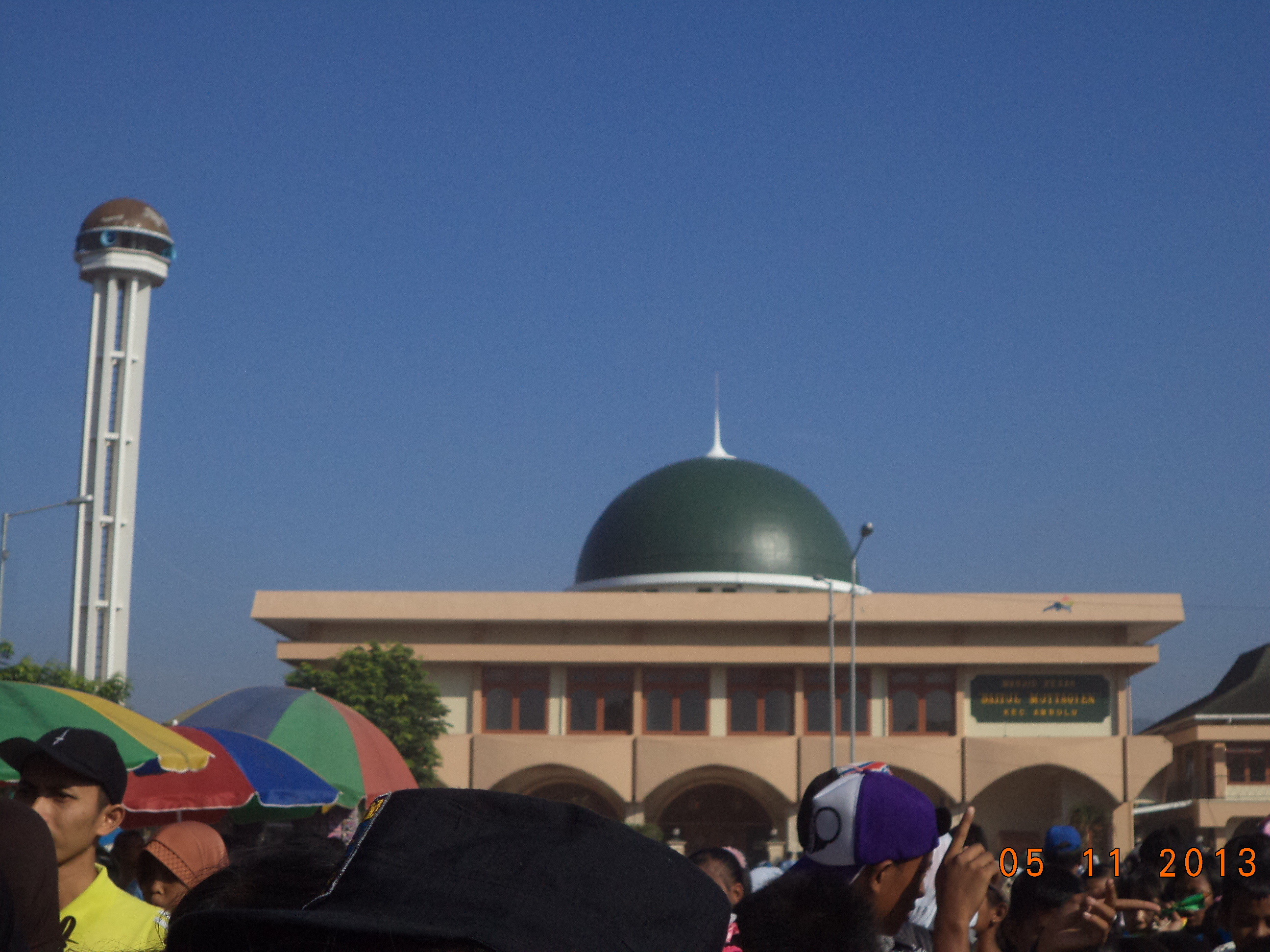 Photographer Much Nesha AR